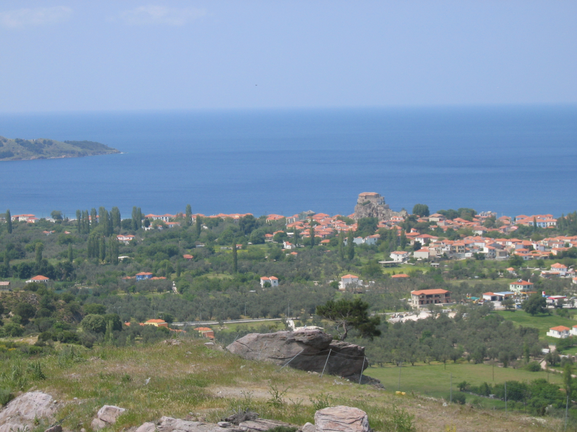 The village of Petra on Lesbos. Own photograph